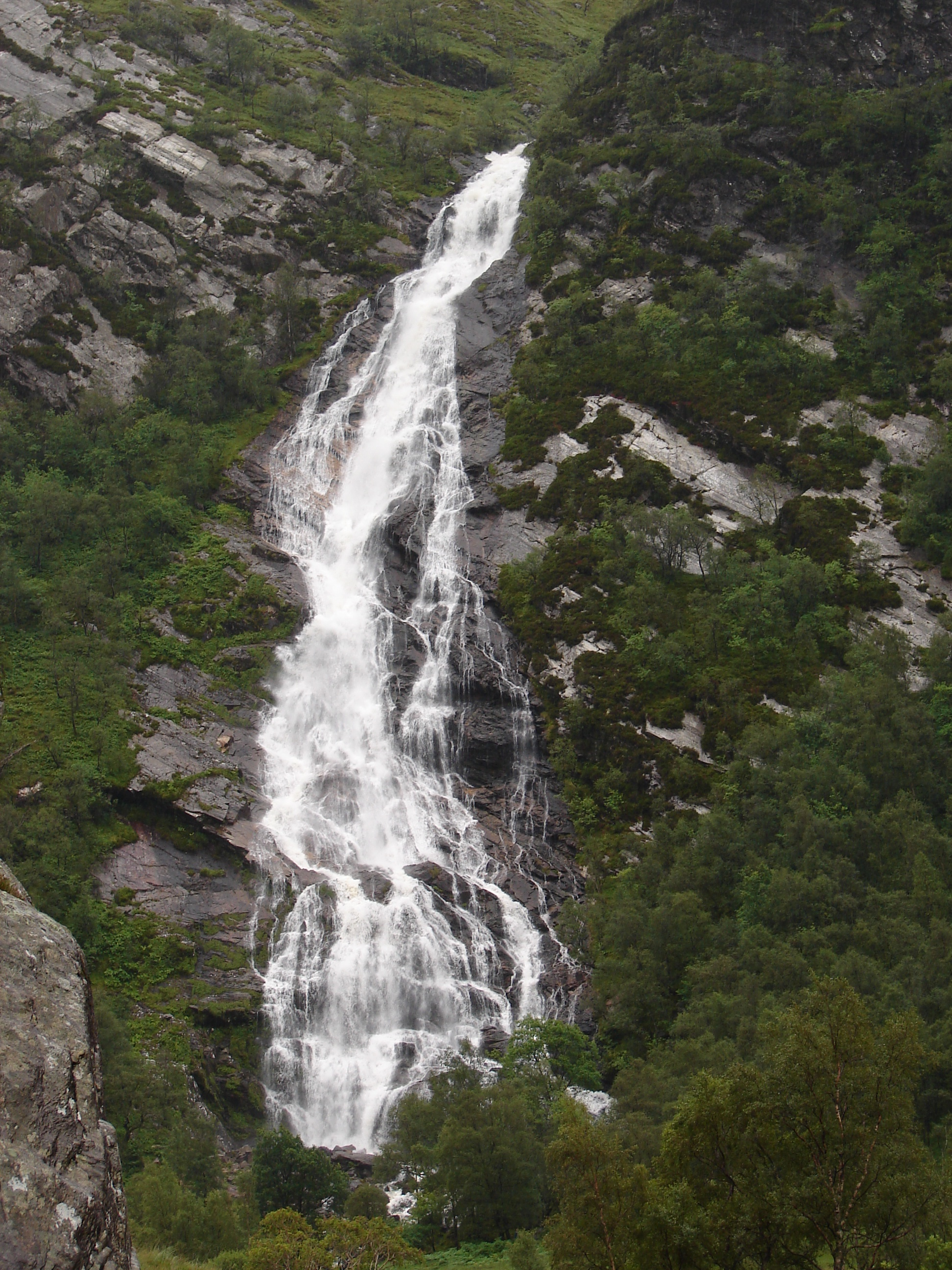 Steall Waterfall, Glen Nevis, Highlands, Scotland